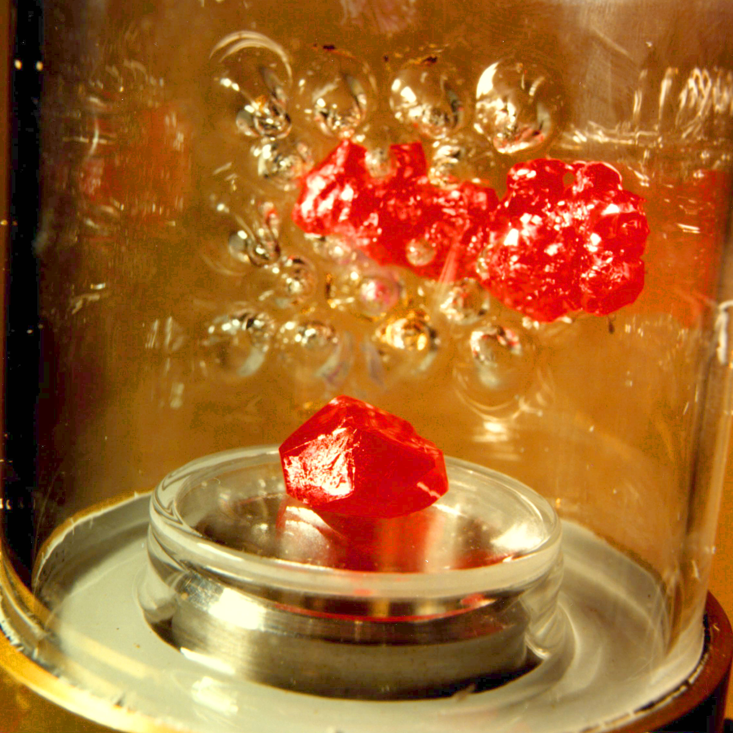 Vapor Crystal Growth System (VCGS), Flown on IML-1, Spacelab 3, Principal Investigator: Lodewijk van den Berg